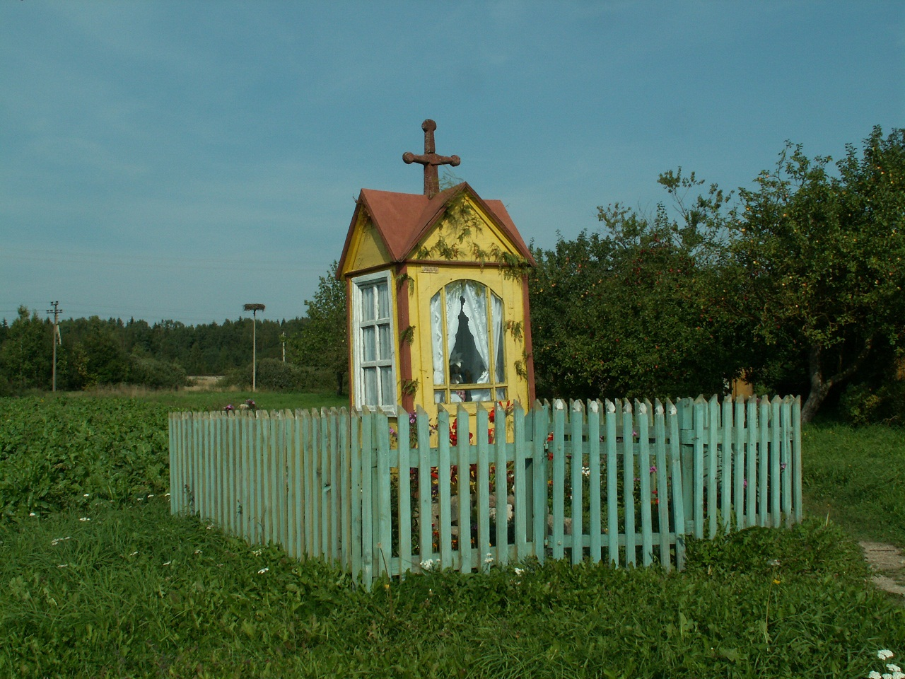 Kūlupėnai chapel, Kretinga district, Lithuania